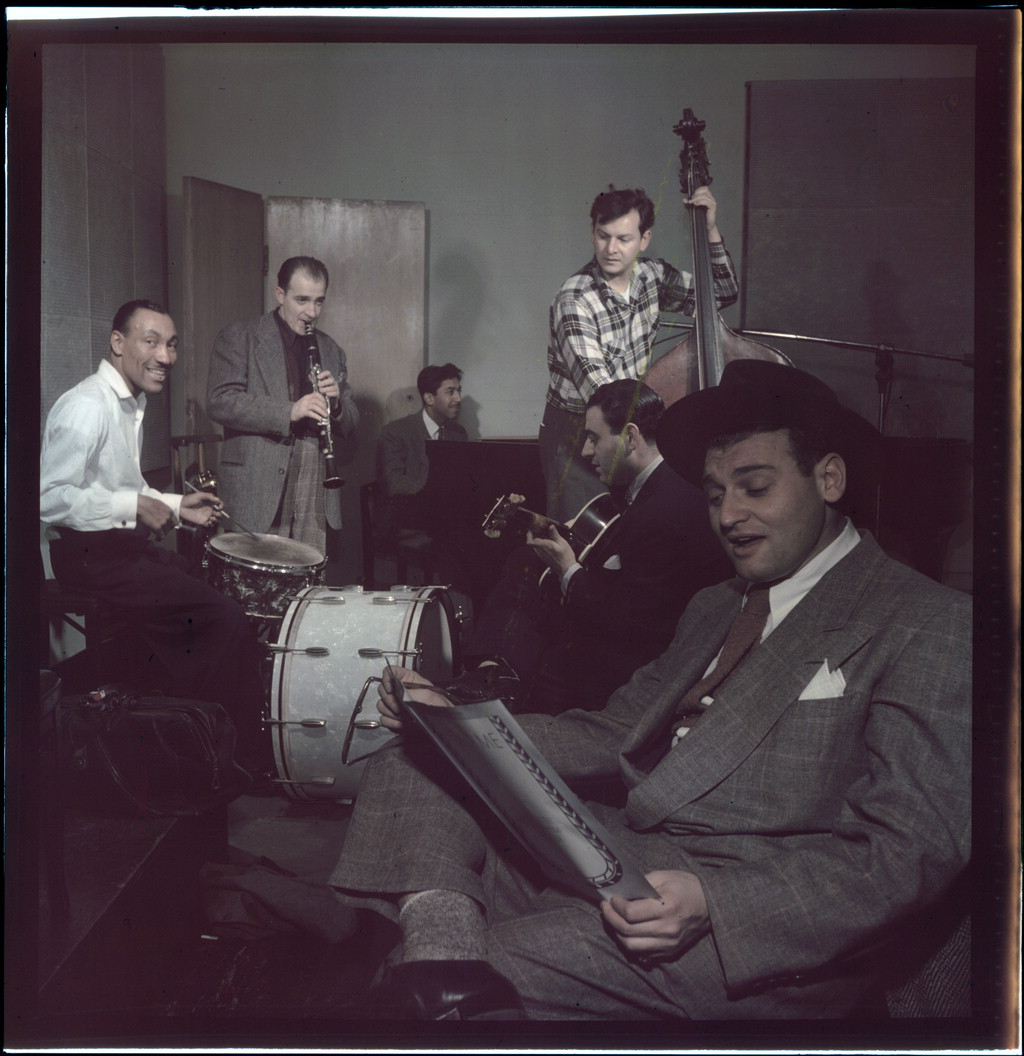 Jimmy Crawford (left) and Frankie Laine (right), Photography by William P. Gottlieb between 1946 and 1948.